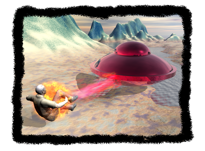 own creation